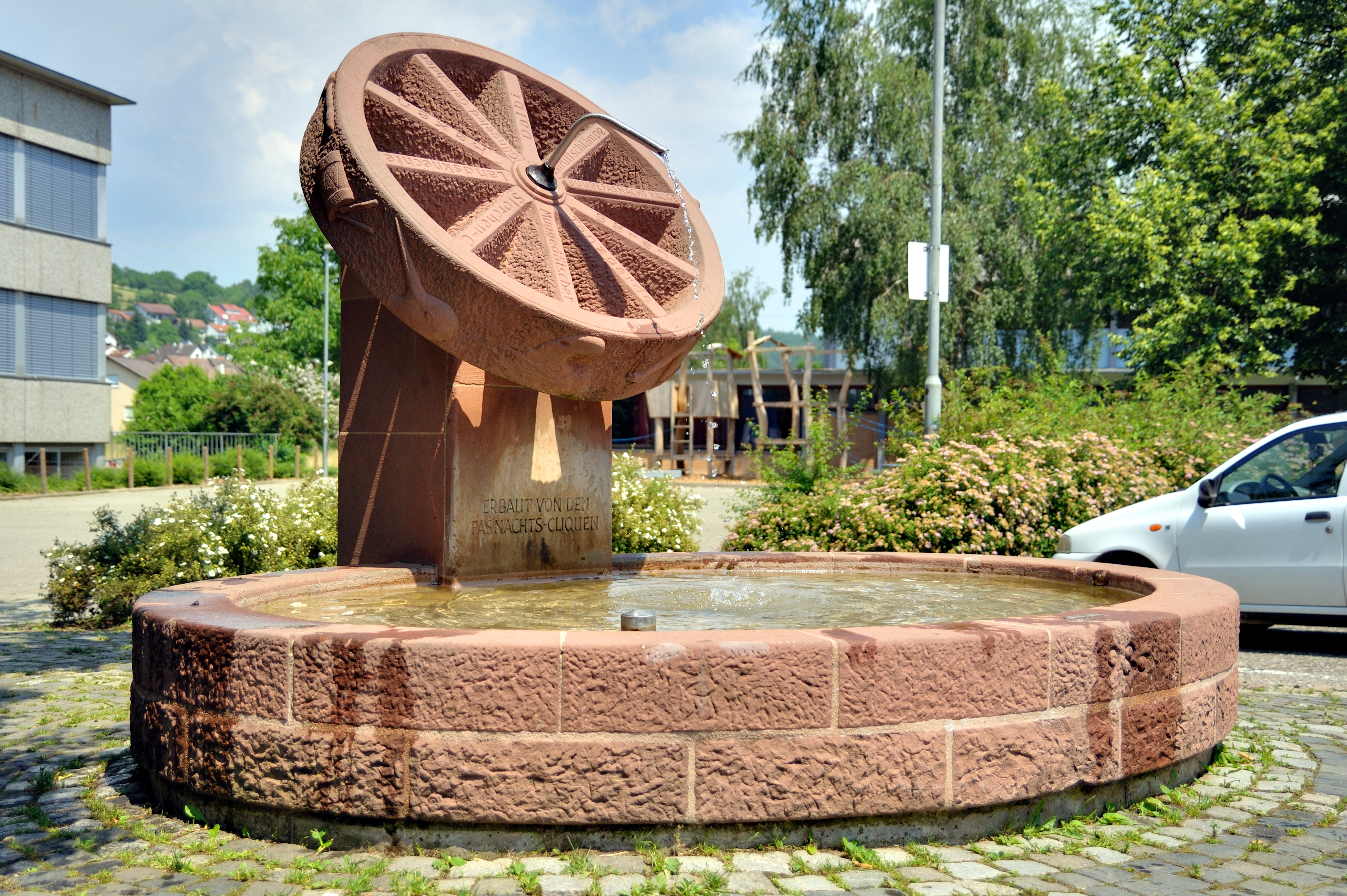 Hauingen: carnival water well